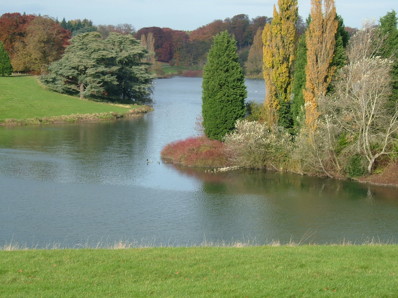 Blenheim Palace's garden